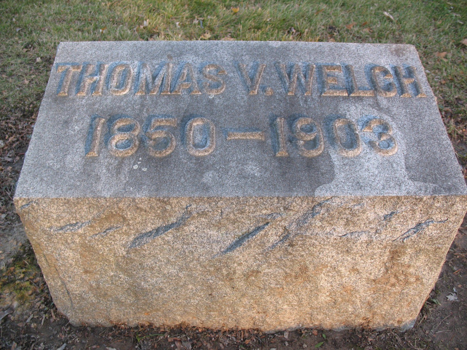 The headstone of Thomas Vincent Welch, former New York State Assemblyman and Superintendent of the State Reservation at Niagara.